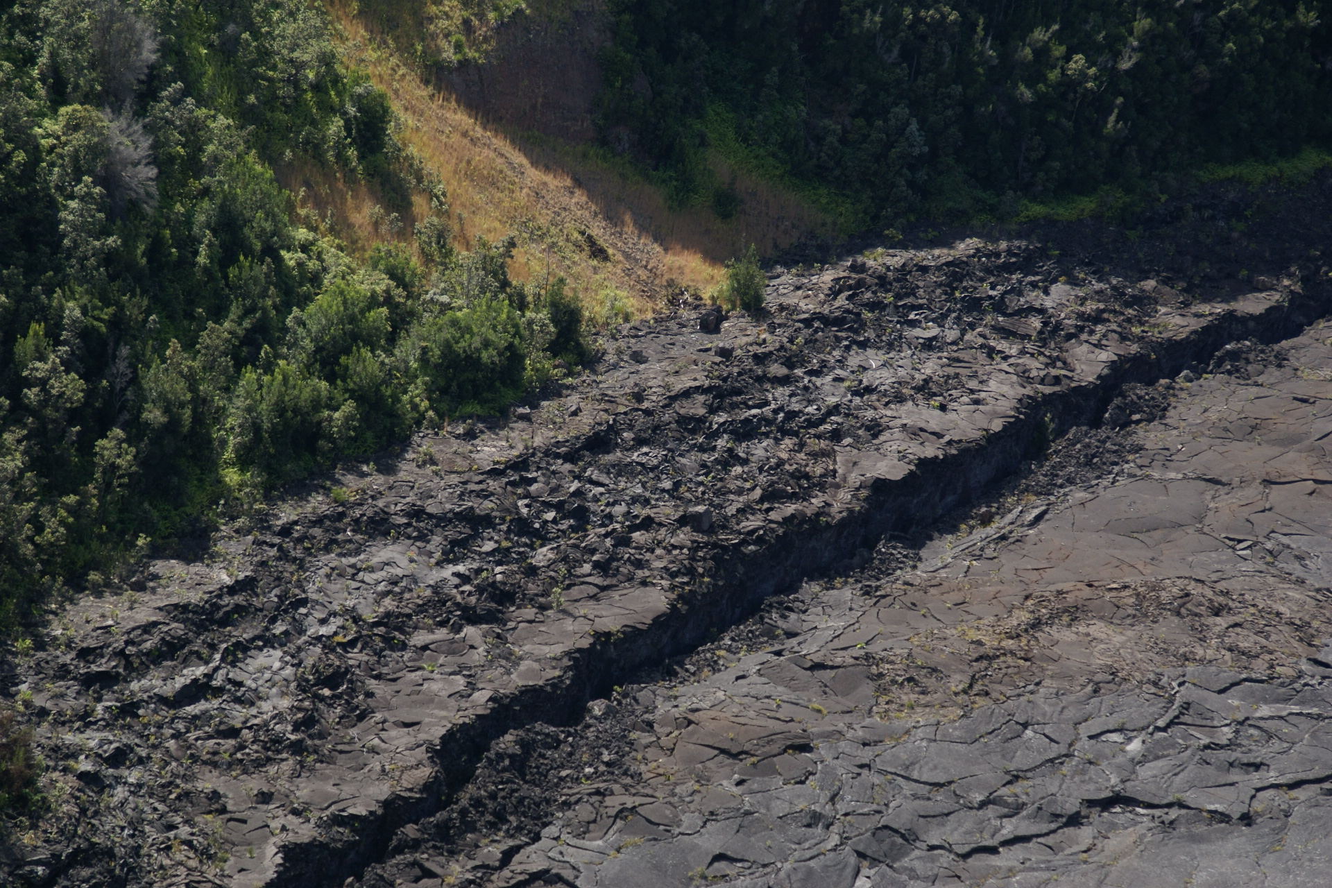 Iki crater, Hawaii Volcanoes National Park, Hawaii (Big Island), Hawaii